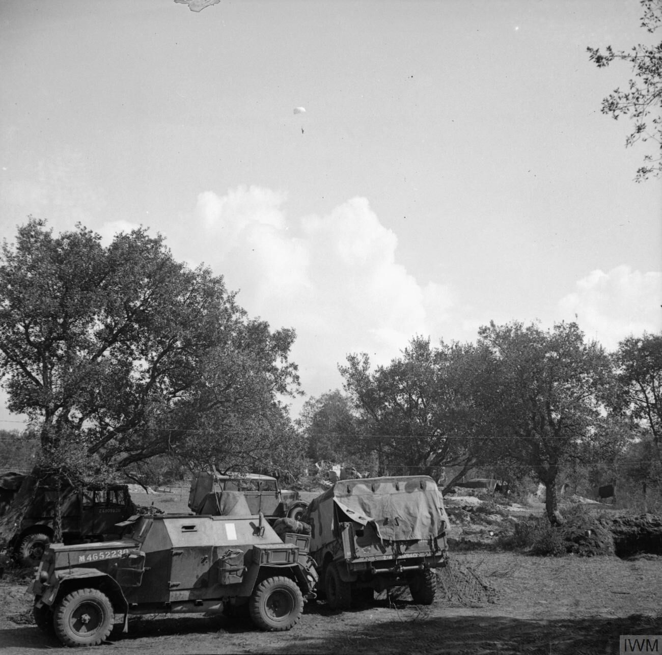 The pilot of a German aircraft, shot down while attacking an ammunition dump in the Anzio bridgehead, descends by parachute, 21 March 1944. A Humber Mk III light reconnaissance car can be seen in the foreground.